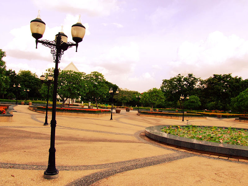 Place in the Park Queen Sirikit, Bangkok, Thailand